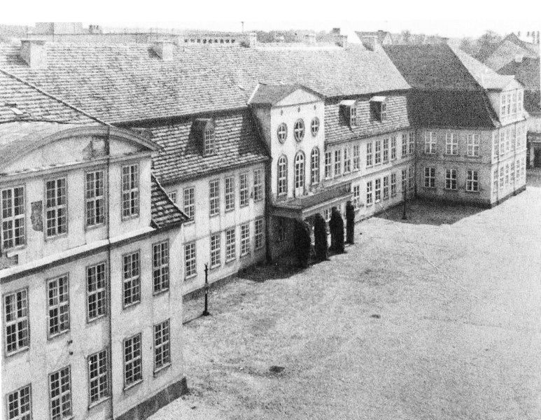 Castle in Neubrandenburg, Mecklenburg-Strelitz, Germany, about 1900, destroyed 1945